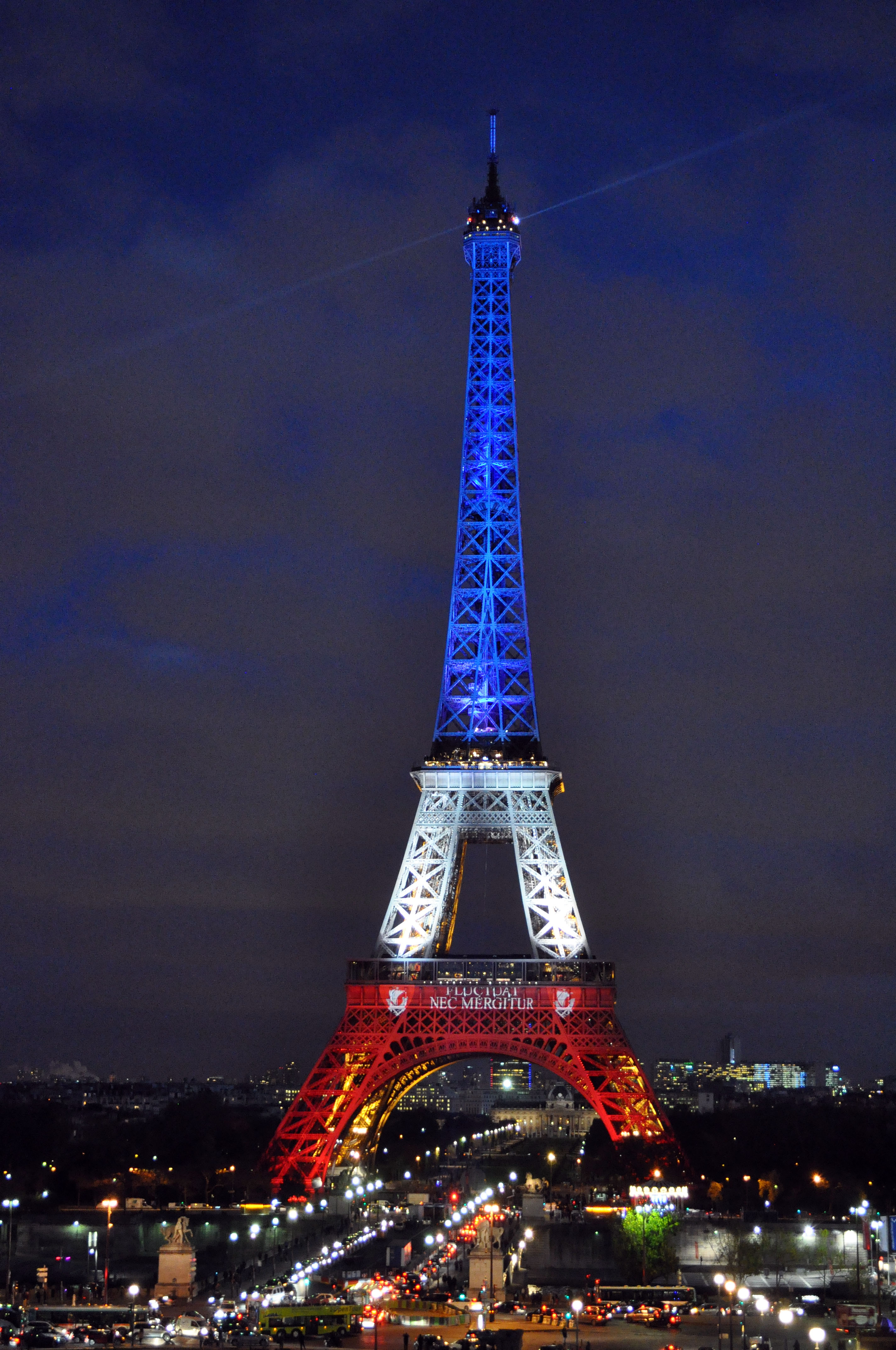 EIFFEL TOWER PARIS honor our victims